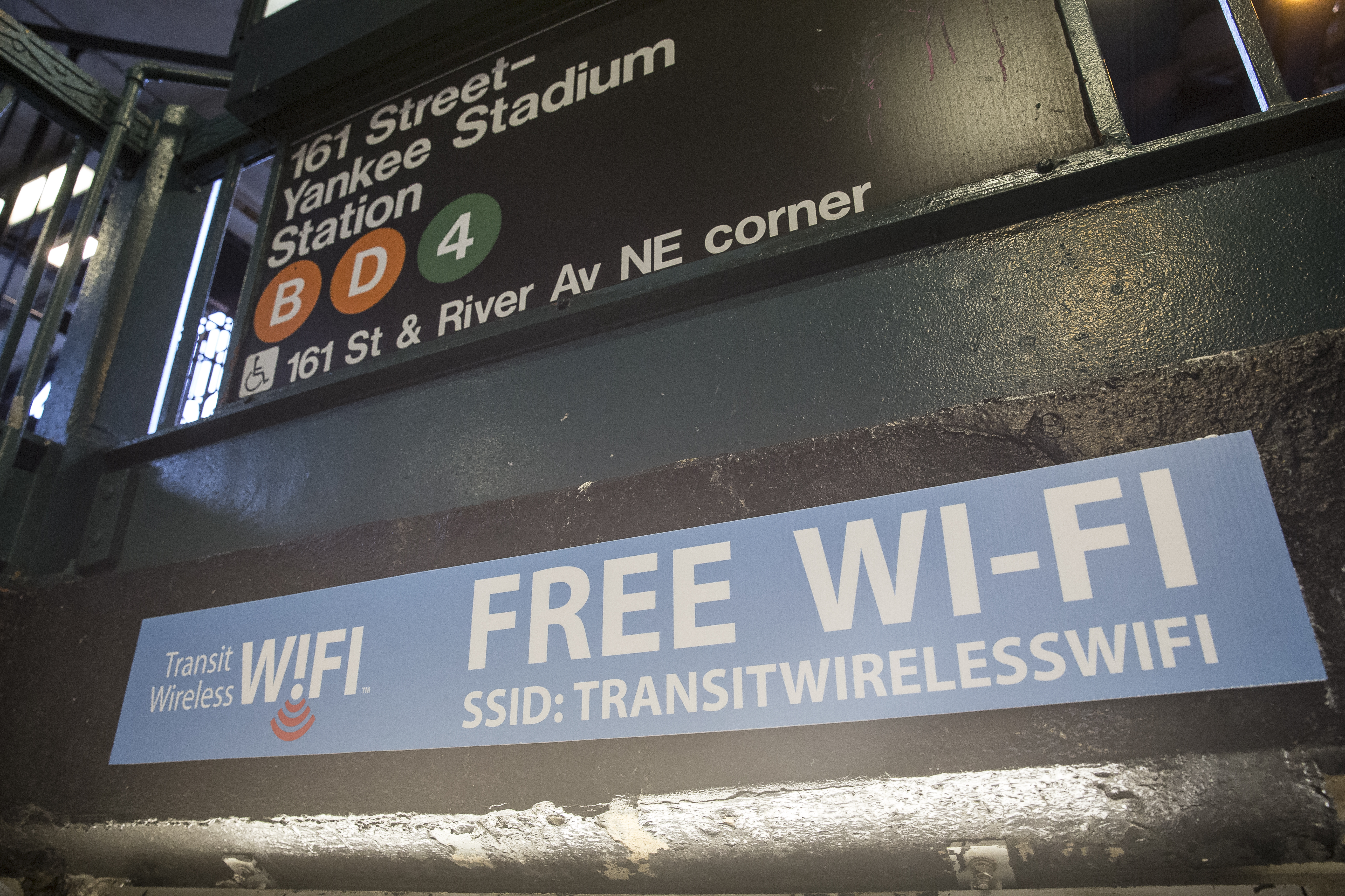 The MTA was joined by Transit Wireless and other carrier partners to introduce Phase 4 expansion of wireless, public safety and Wi-Fi services to 21 underground subway stations in the Bronx and 16 in Manhattan at 161St-Yankee Stadium station in the Bronx on November 12, 2015. Photo: Transit Wireless